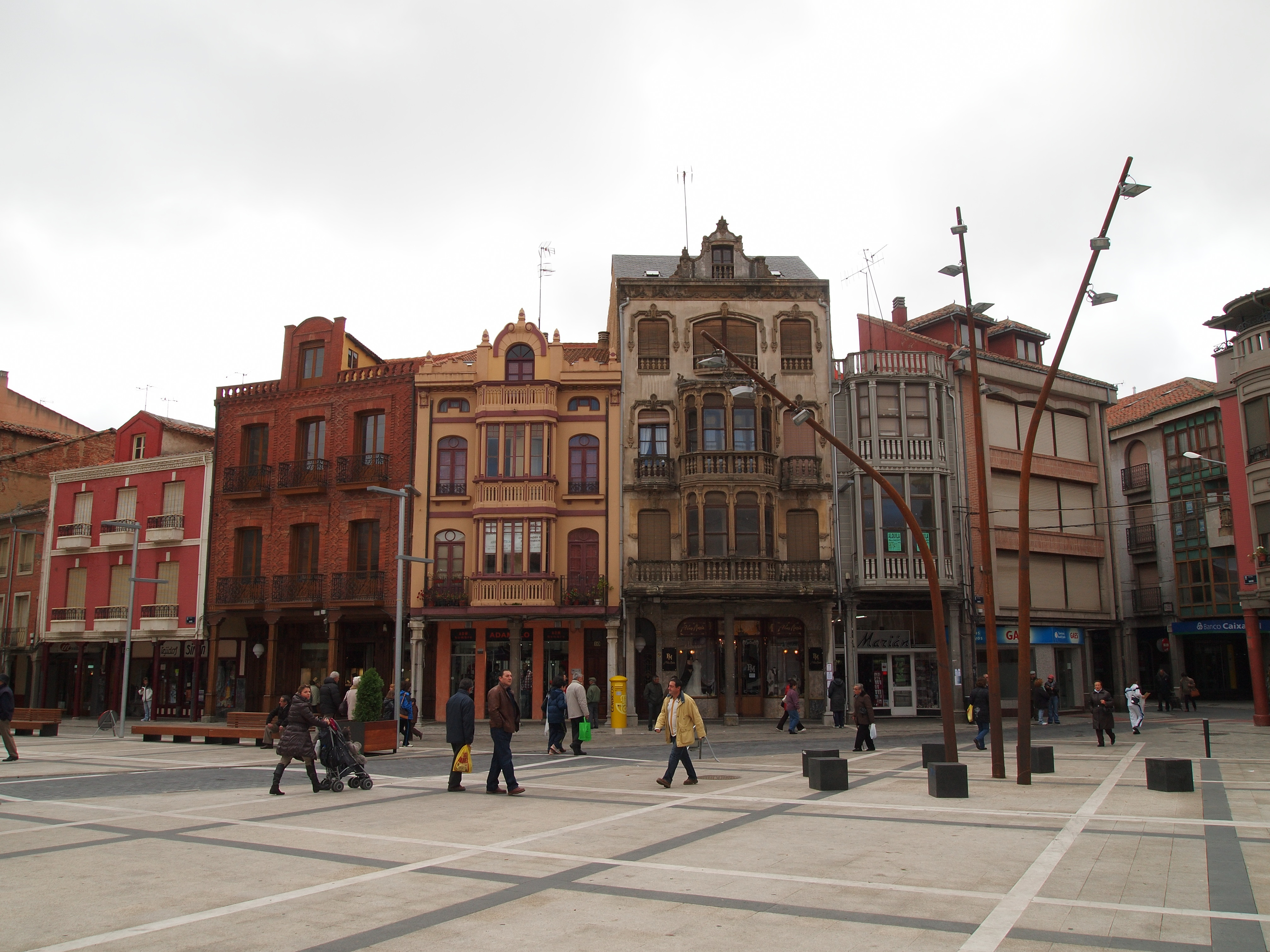 The main square in La Bañeza, a spanish town in the province of León, after being remodelated in 2010